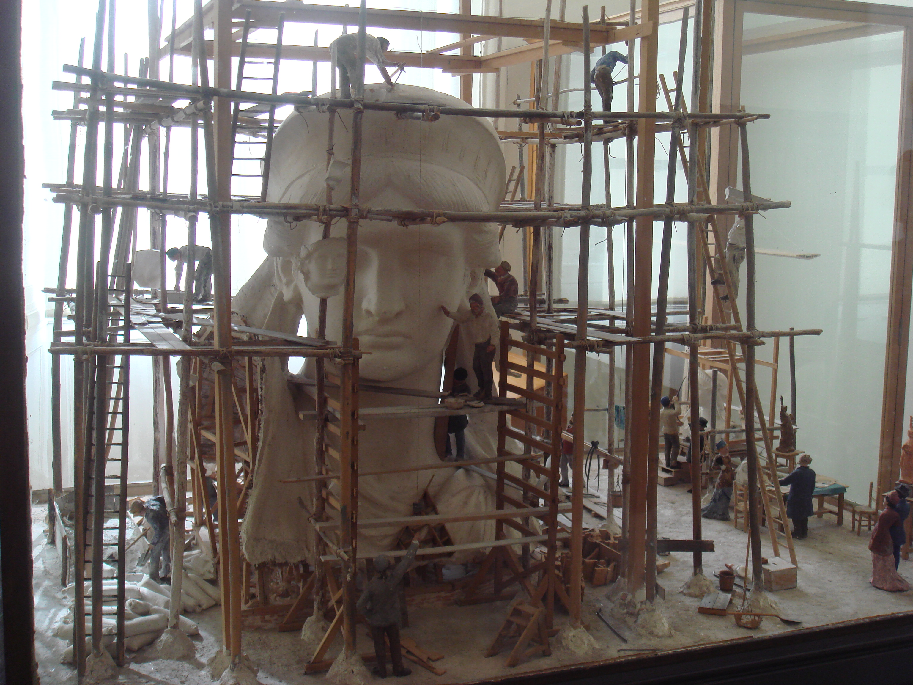 Circa 1880 model of the plaster mock-up of Statue_of_Liberty